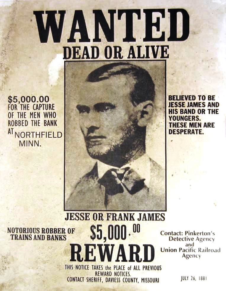 Jesse James outlaw reward poster